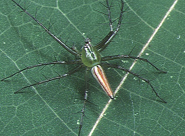 male Oxyopes macilentus from Okinawa.